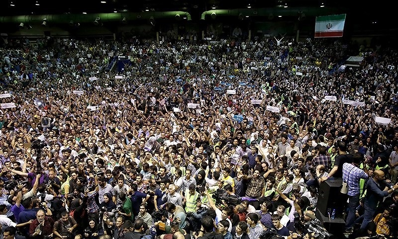 Presidential candidate, Hassan Rouhani's election convention in Shahid Shiroudi Hall, Tehran